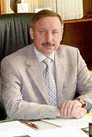 Alexander Beglov